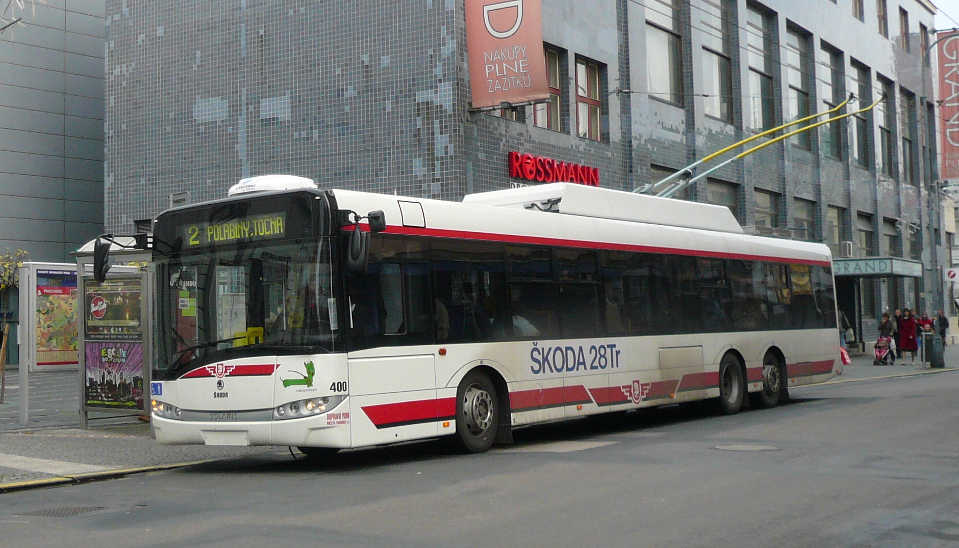 Škoda 28Tr Solaris in Pardubice